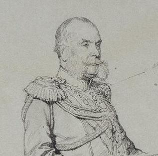 Baranov, Eduard Trofimovich